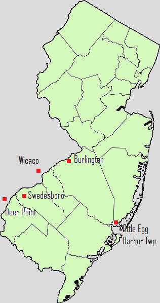 This is a colored version of a labeled New Jersey map showing locations important in the life of Hendrick Jacobs Falkenberg. An outline map of New Jersey counties was pulled from Wikimedia Commons and labeled with specific locations.Sarnold17 (talk) 00:03, 25 October 2010 (UTC)